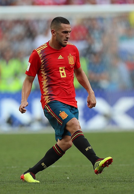 Koke Resurrección